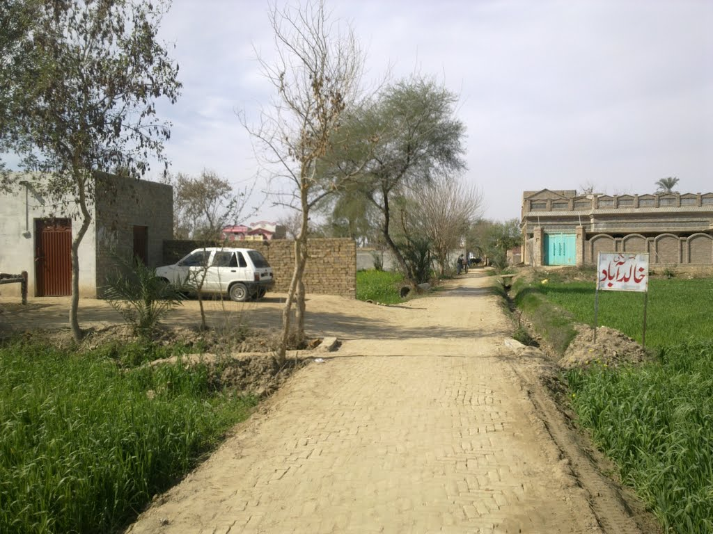 khalid abad